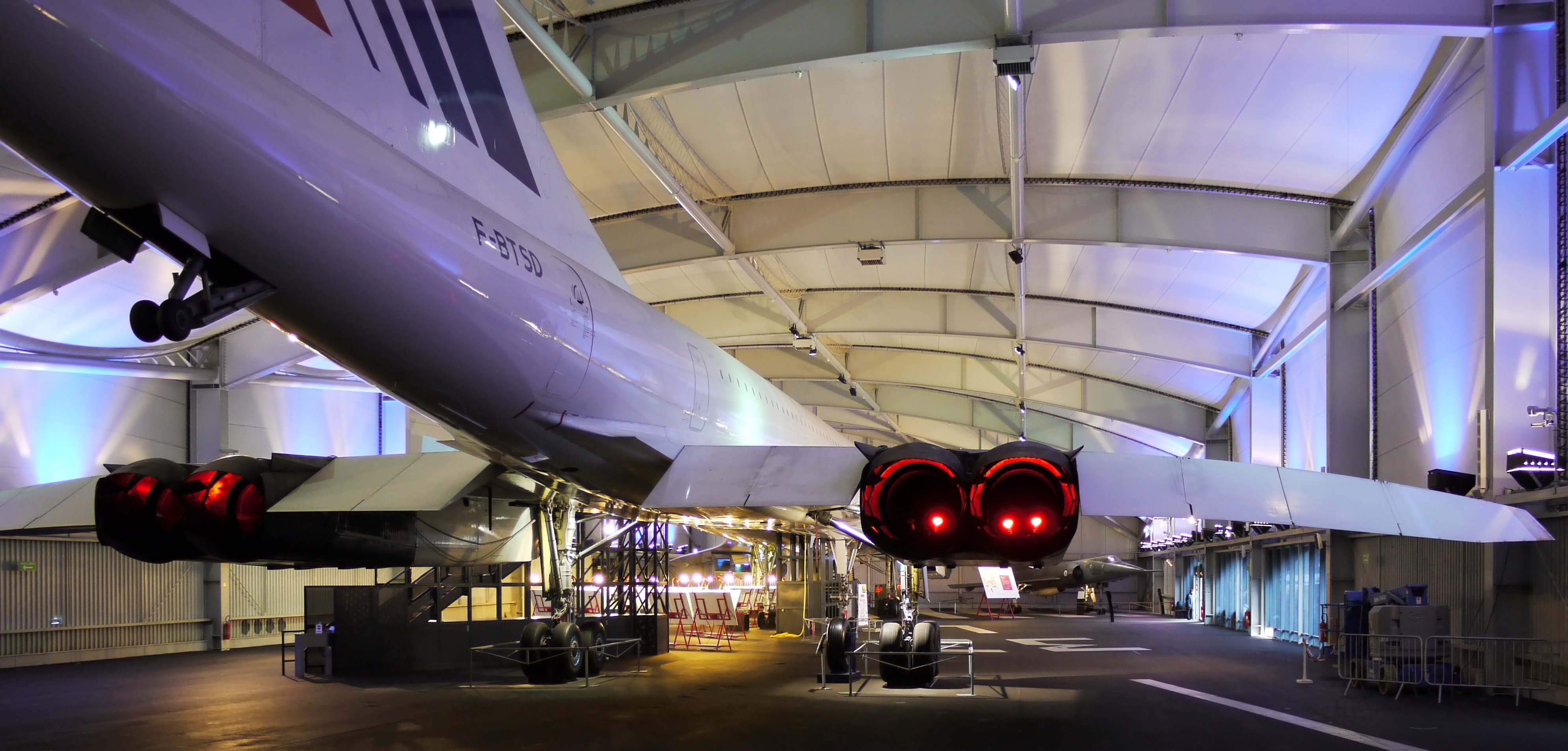 Concorde 001 Air France (1969), Museum of Air and Space Paris, Le Bourget (France)